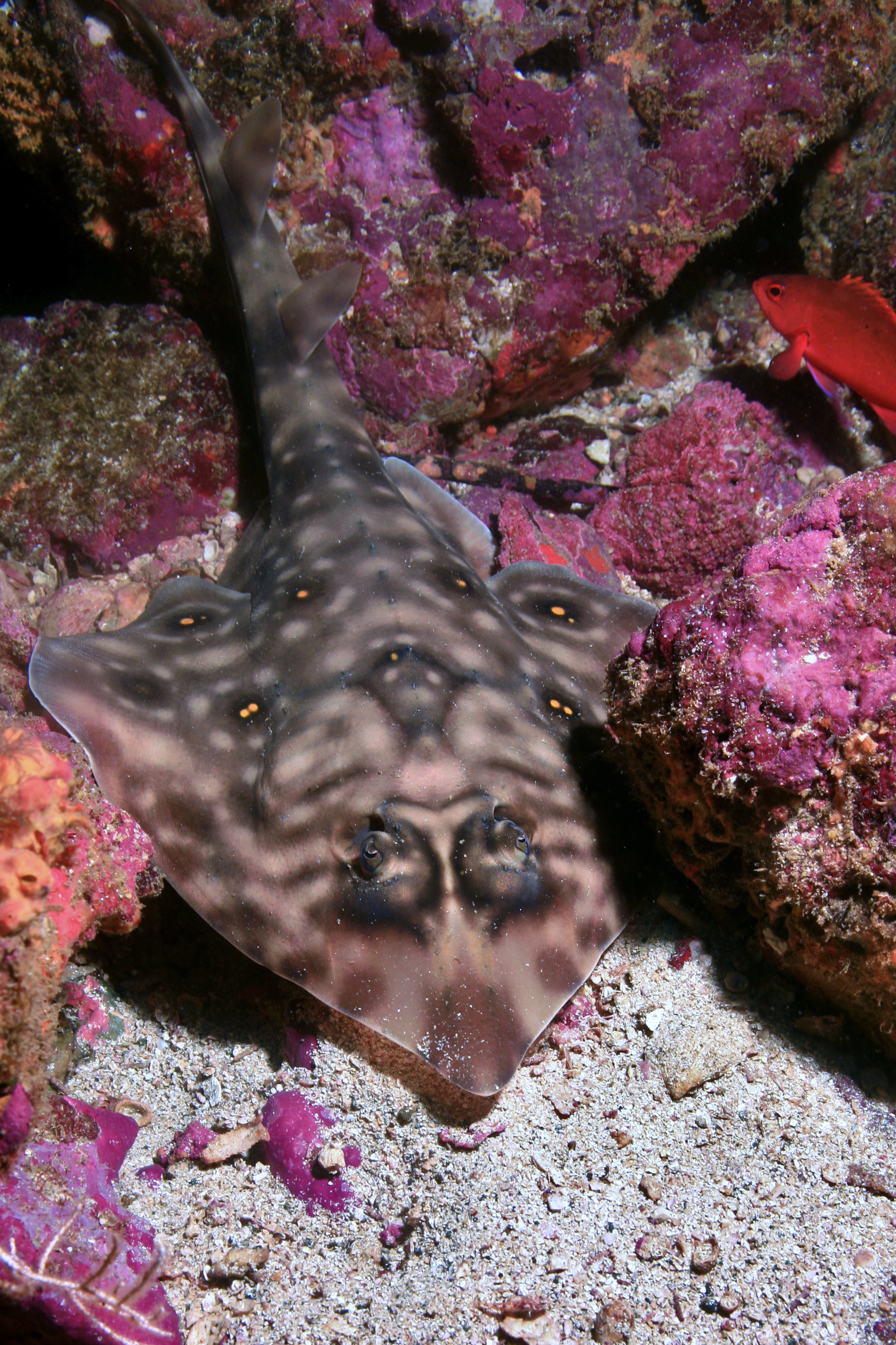 Southern banded guitarfish (Zapteryx xyster) at Isla Canales de Afuera, Coiba National Park, Panama.